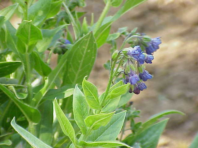 Species: Lindelofia longiflora Family: Boraginaceae Image No. 5